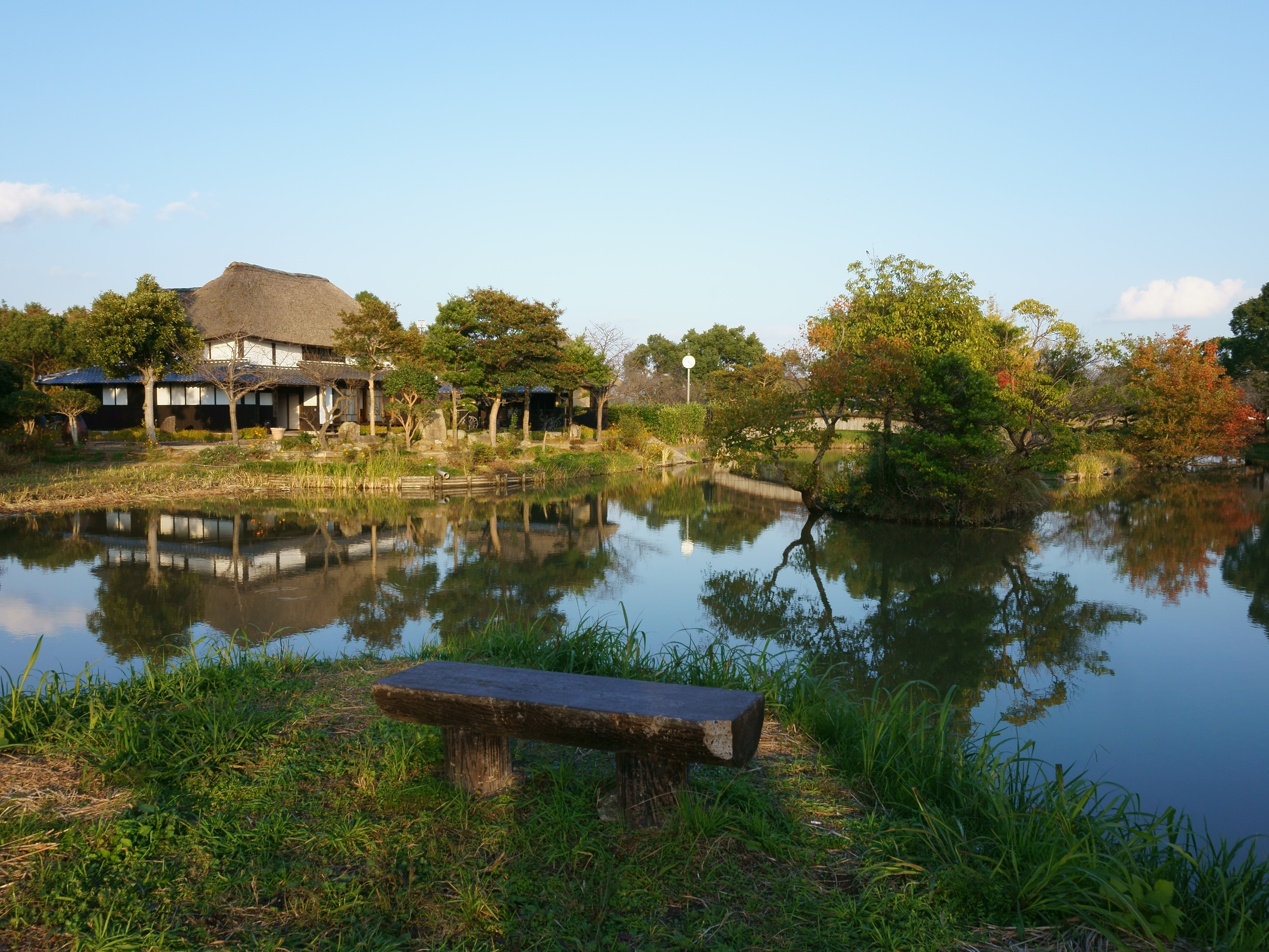 Creeks and autumn colored leaves in front of resthouse, at Yokotake Creek Park.